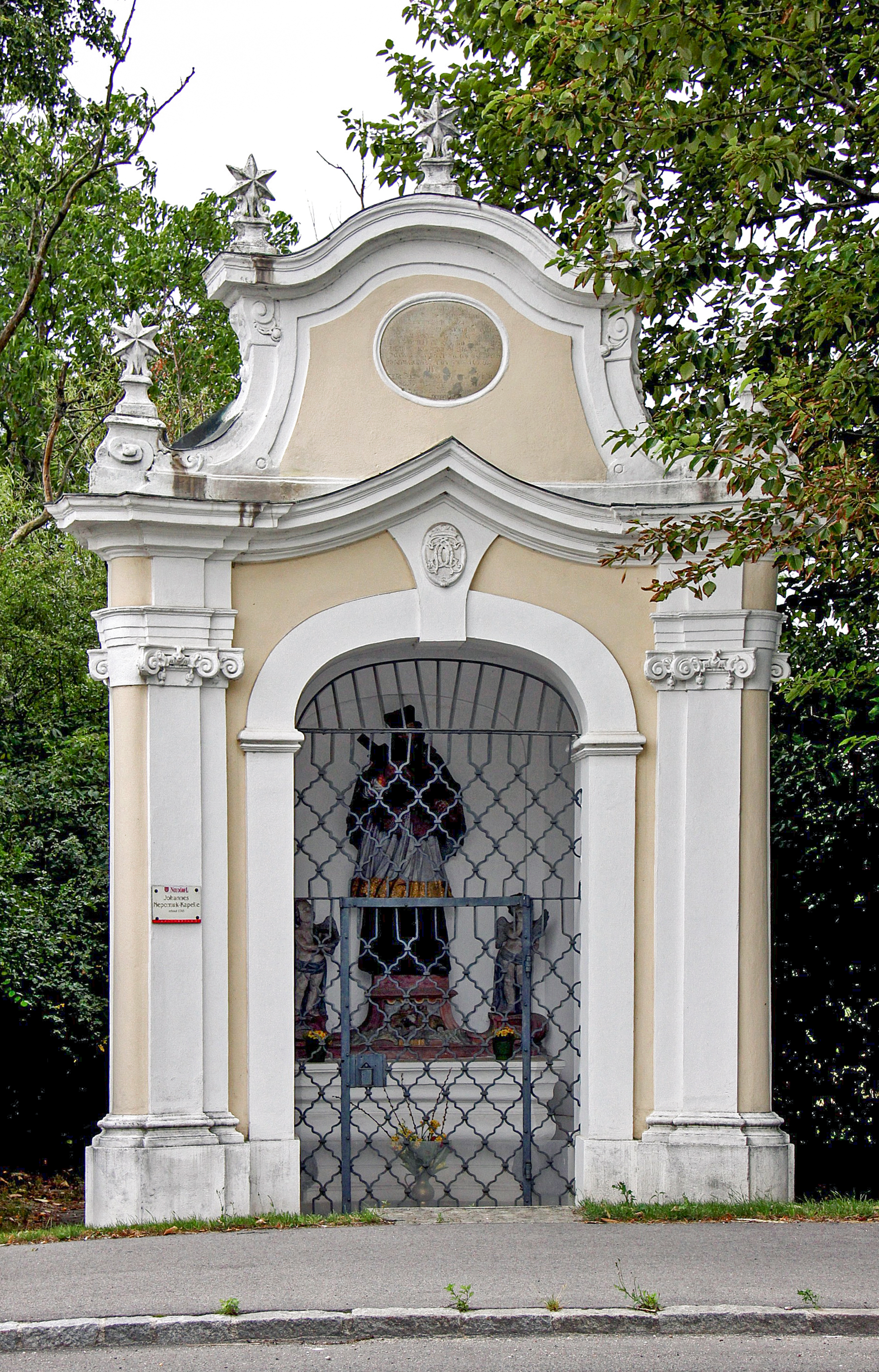 Chapel - Neudörfl Object location47° 48′ 04.6″ N, 16° 16′ 30.43″ E